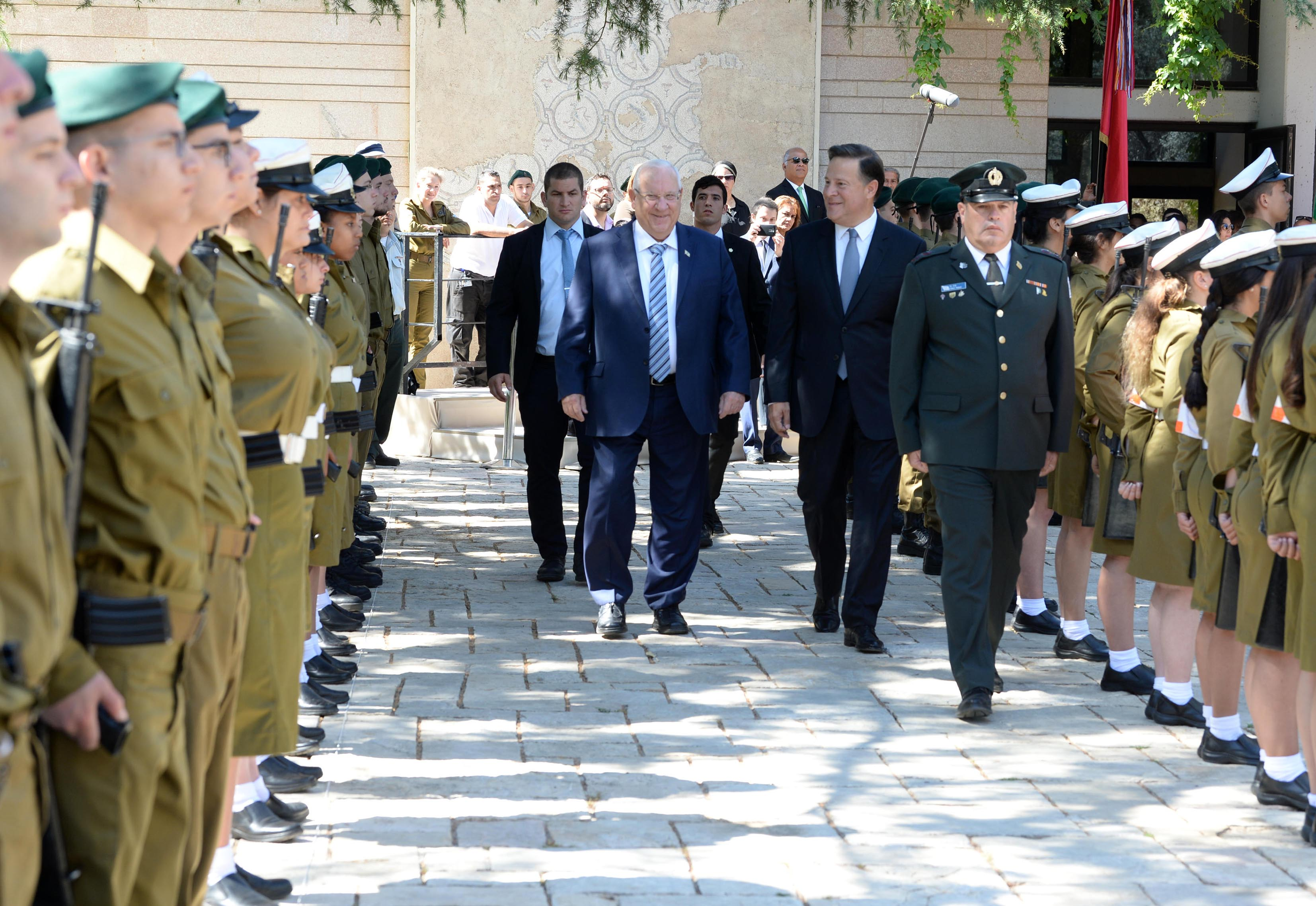 The President of Israel, Reuven Rivlin, and his wife hold a state reception for the President of the Republic of Panama, Juan Carlos Varela and his wife. Wednesday, May 16, 2018. Photo Credit: Mark Neyman / GPO.